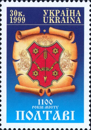 Stamp of Ukraine